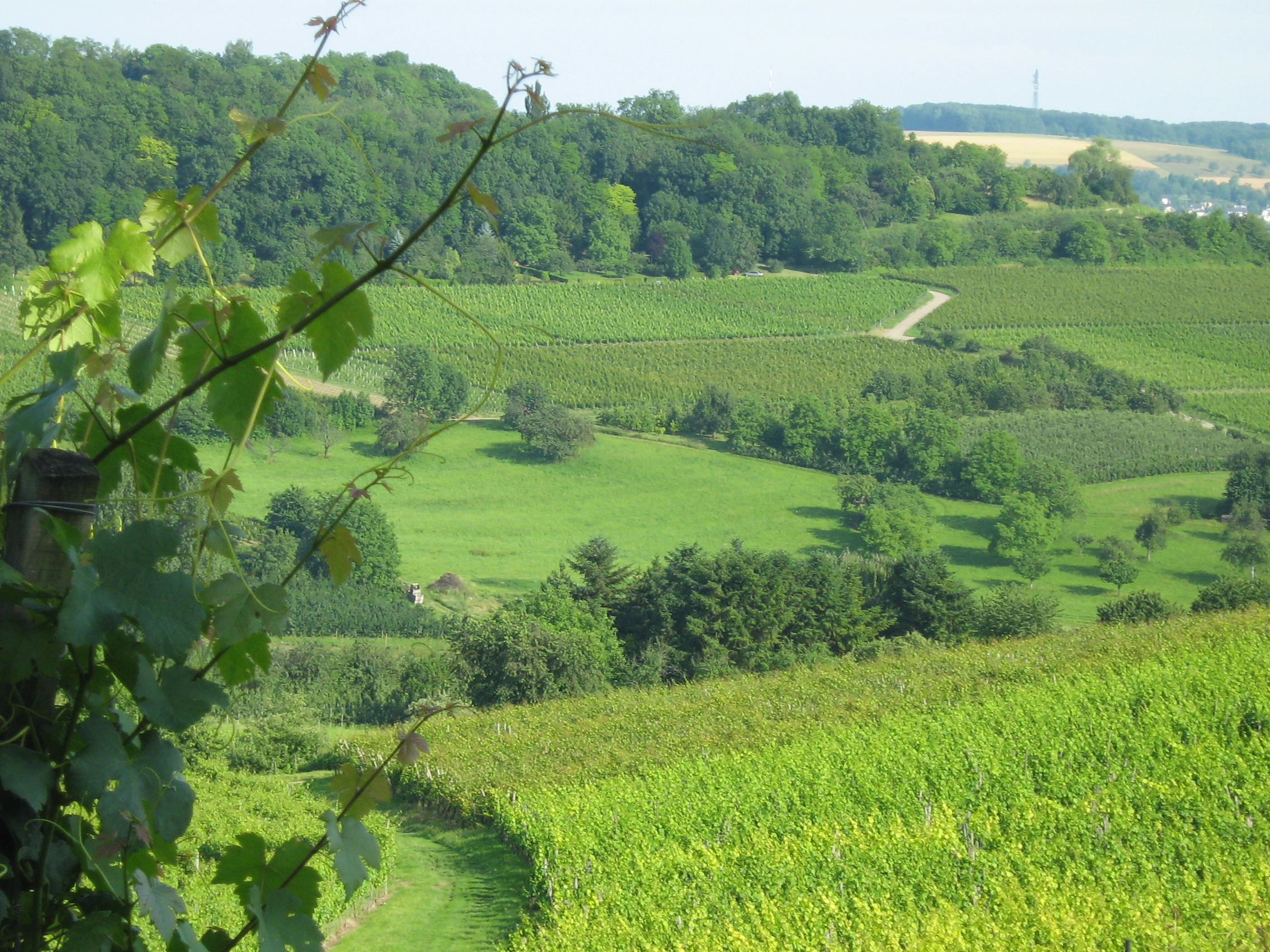 Impressions of Fischingen (Baden)